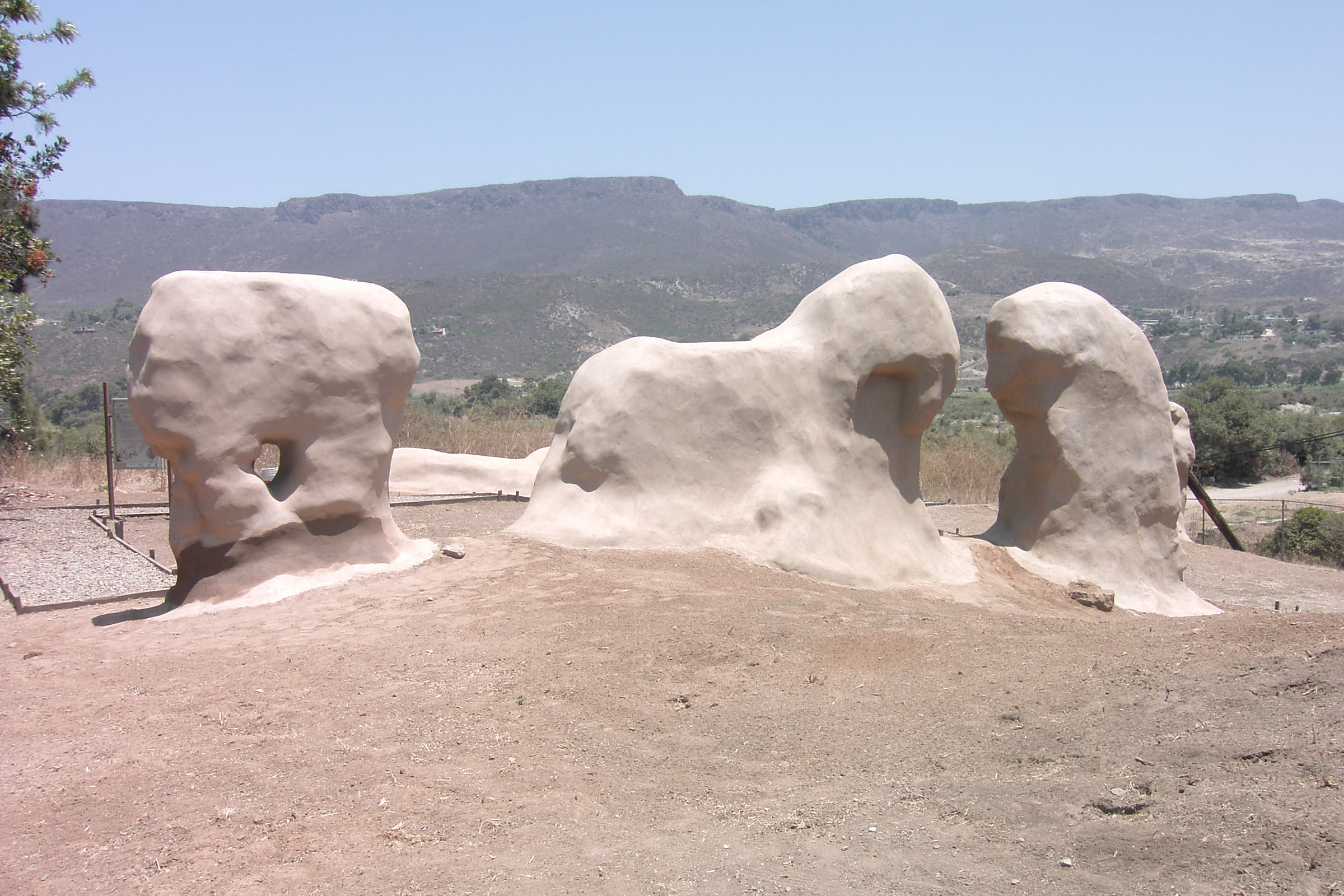 Picture of San Miguel Arcangel de la Frontera taken 09/07/2005 showing the three remaining walls covered in sacrificial layer.